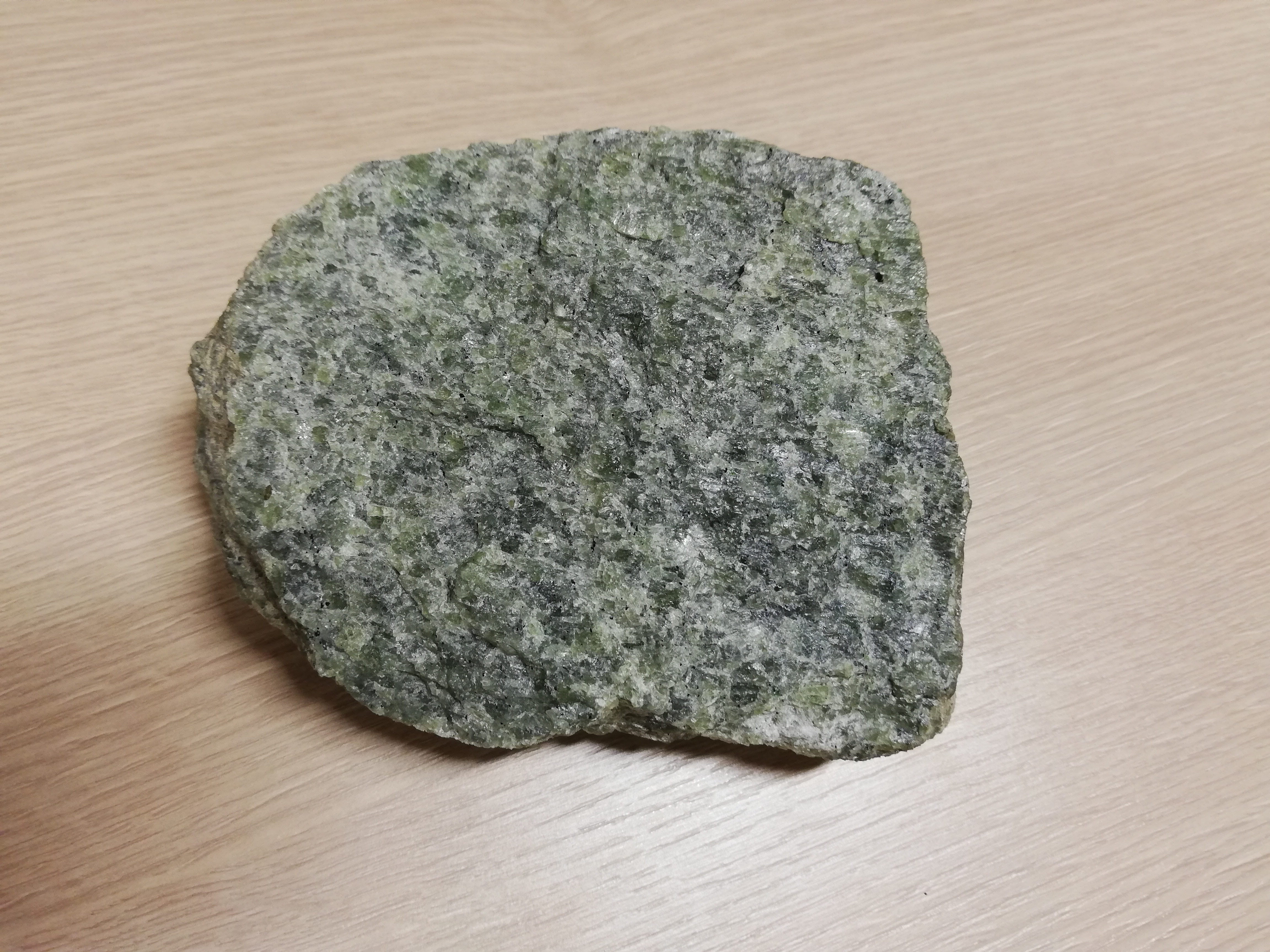 Dunite from the Ivrea zone at Finero, northern Italy.